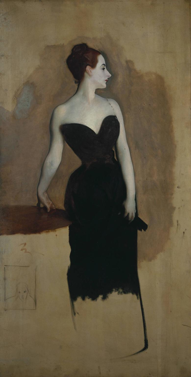 A second, unfinished version of Portrait of Madame X, in which the position of the right shoulder strap remained unresolved.